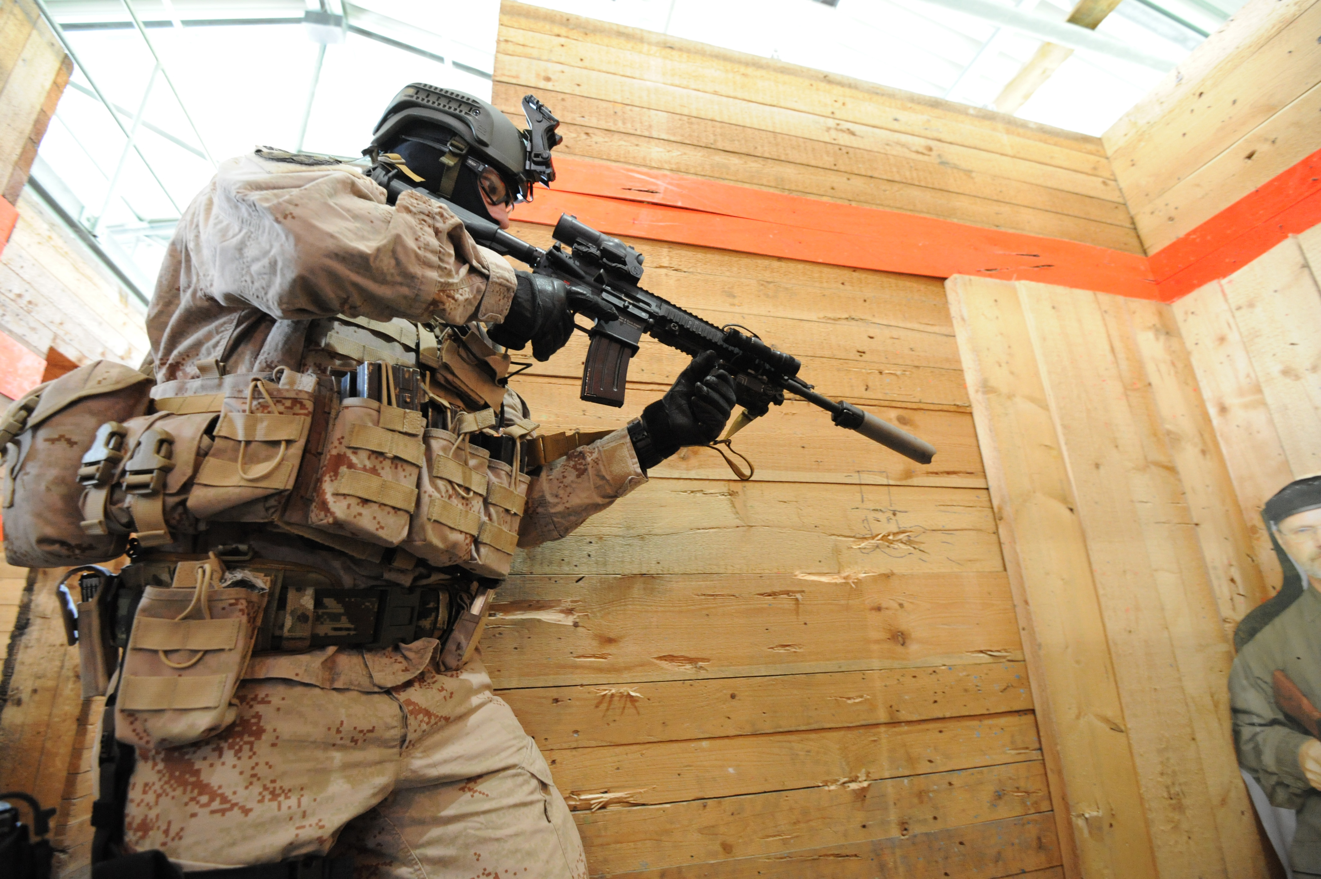 Special operation forces from Croatia conduct close quarter battle training to prepare for Exercise Combined Resolve II at Grafenwoehr Training Area, Germany, May 15, 2014. The exercise is a U.S. Army Europe-directed multinational exercise at the Grafenwoehr and Hohenfels Training Areas, including more than 4,000 participants from 13 allied and partner countries including special operations forces from the U.S., Bulgaria and Croatia interoperability training during the exercise to promote security and stability among NATO and European partner nations. (U.S. Army photo by Visual Information Specialist Gertrud Zach/Released)